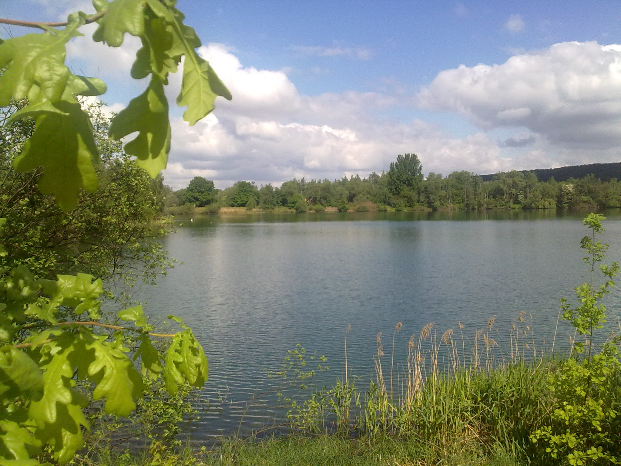 Gravel pond in Vienenburg, Goslar, Lower Saxony (Germany)